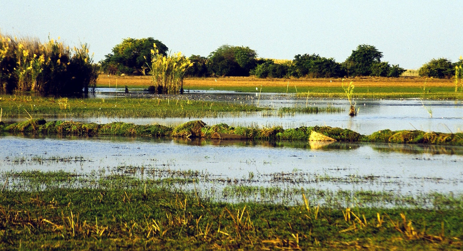 A view of the Bangweulu Swamps, Zambia, at Shoebill Island in the dry season